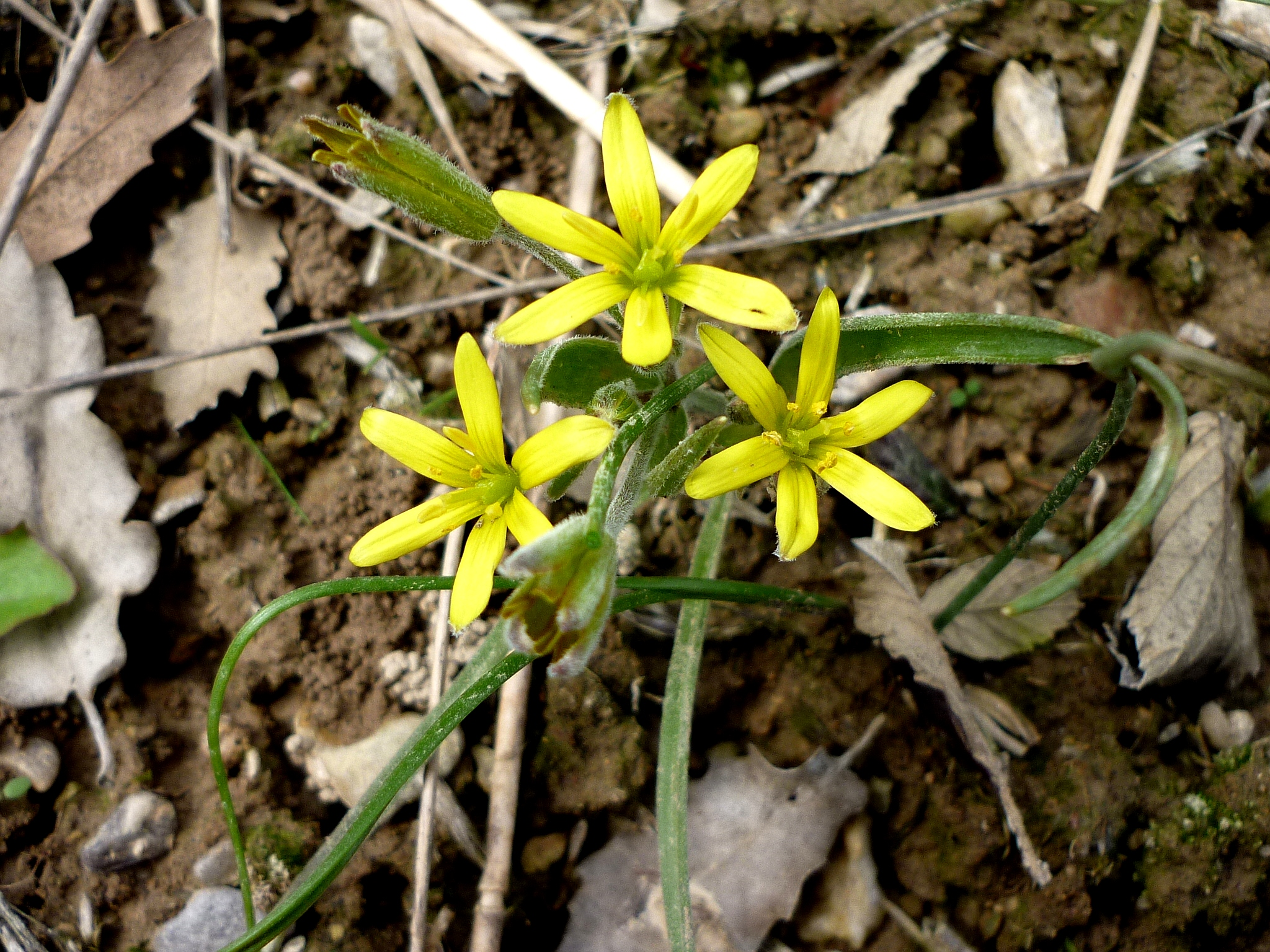 Gagea fragifera. In Torà (Segarra-Catalunya). To 435 m. altitude